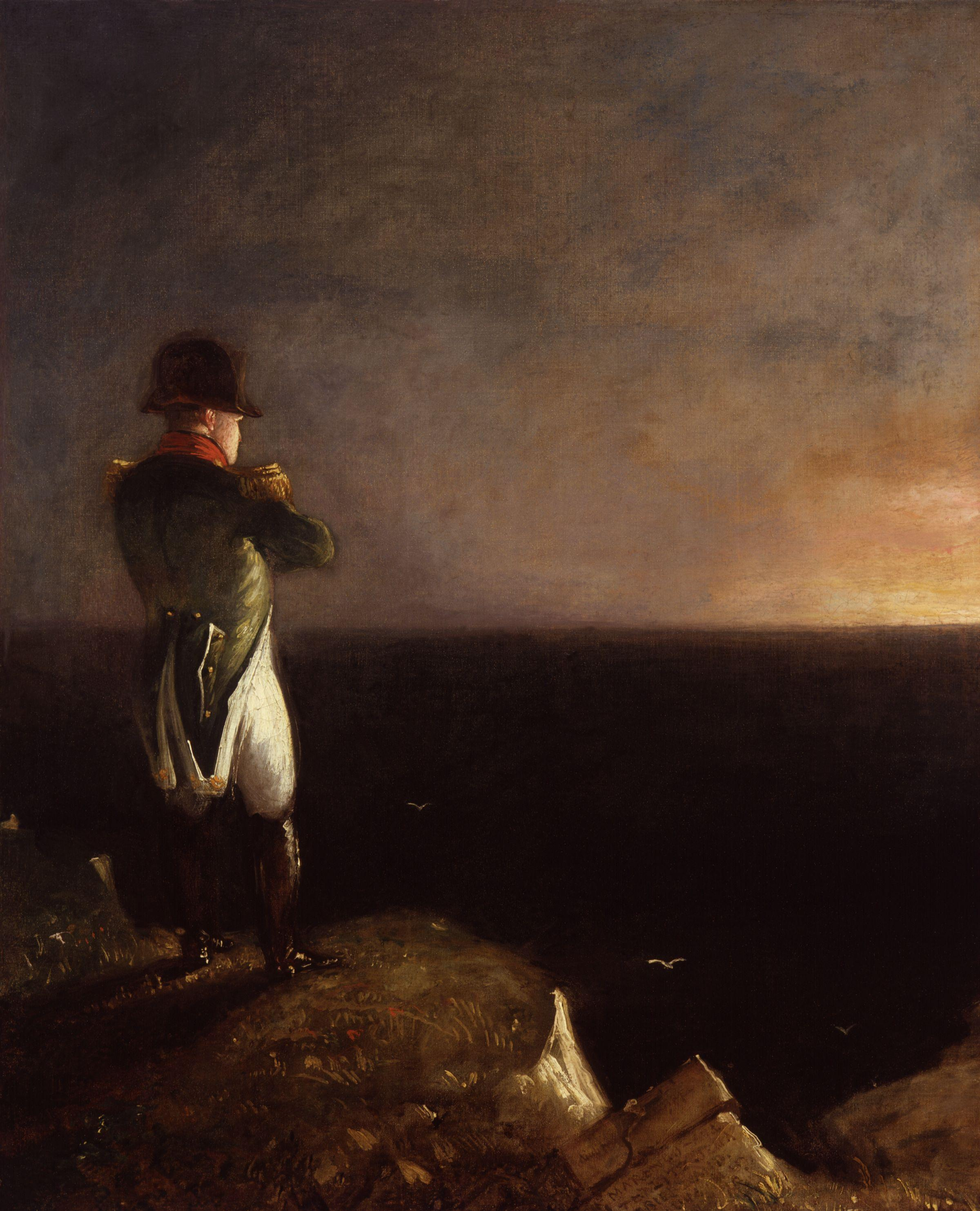 Napoleon Bonaparte, part of a series of 23 beginning with Napoleon Musing After Sunset (1829, for Thomas Kearsey) and including Napoleon Musing at St Helena for Sir Robert Peel. A companion to his portrait(s) of Wellington overlooking the field at Waterloo. See source for additional information.